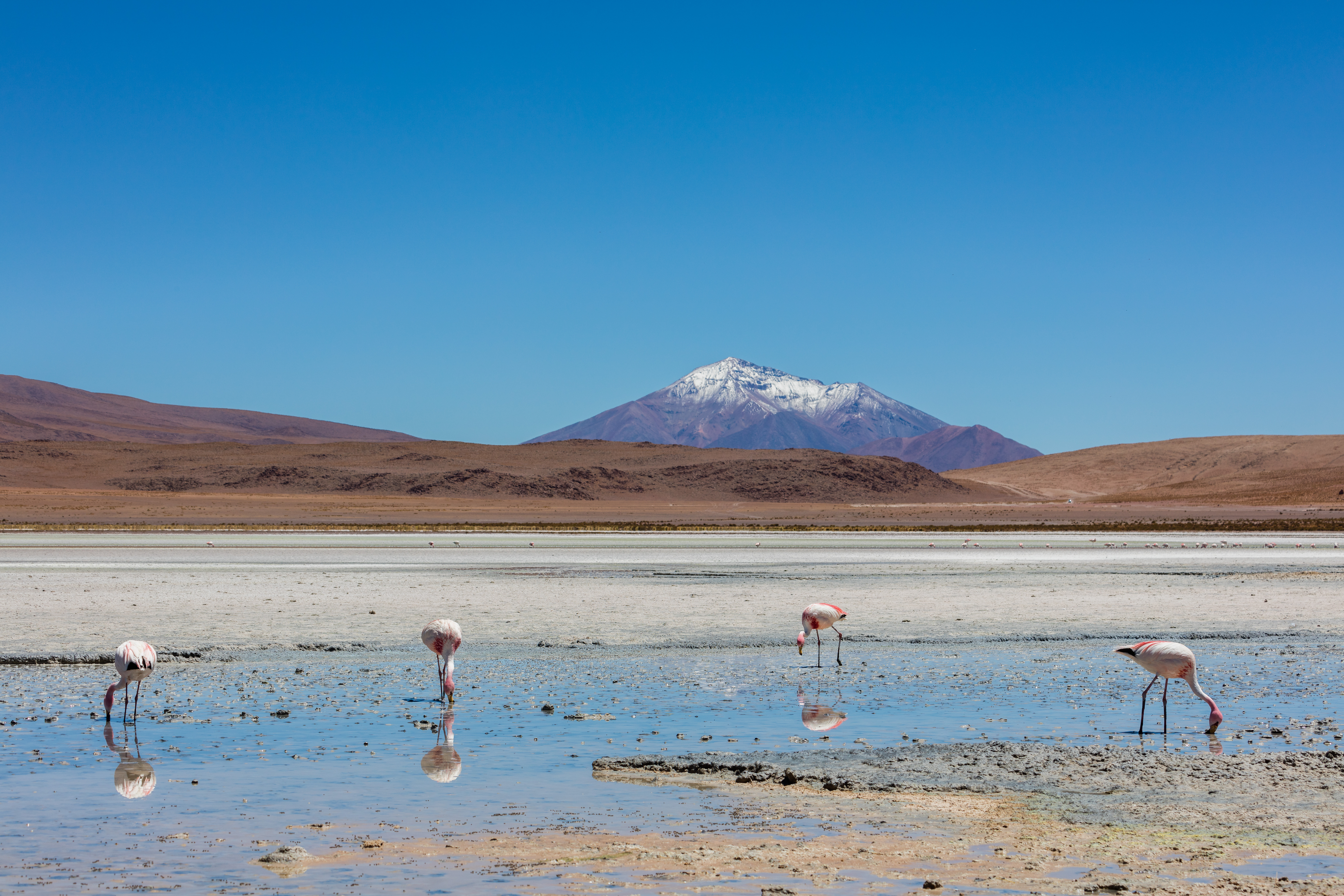 Andean flamingos (Phoenicoparrus andinus), Laguna Hedionda, Bolivia